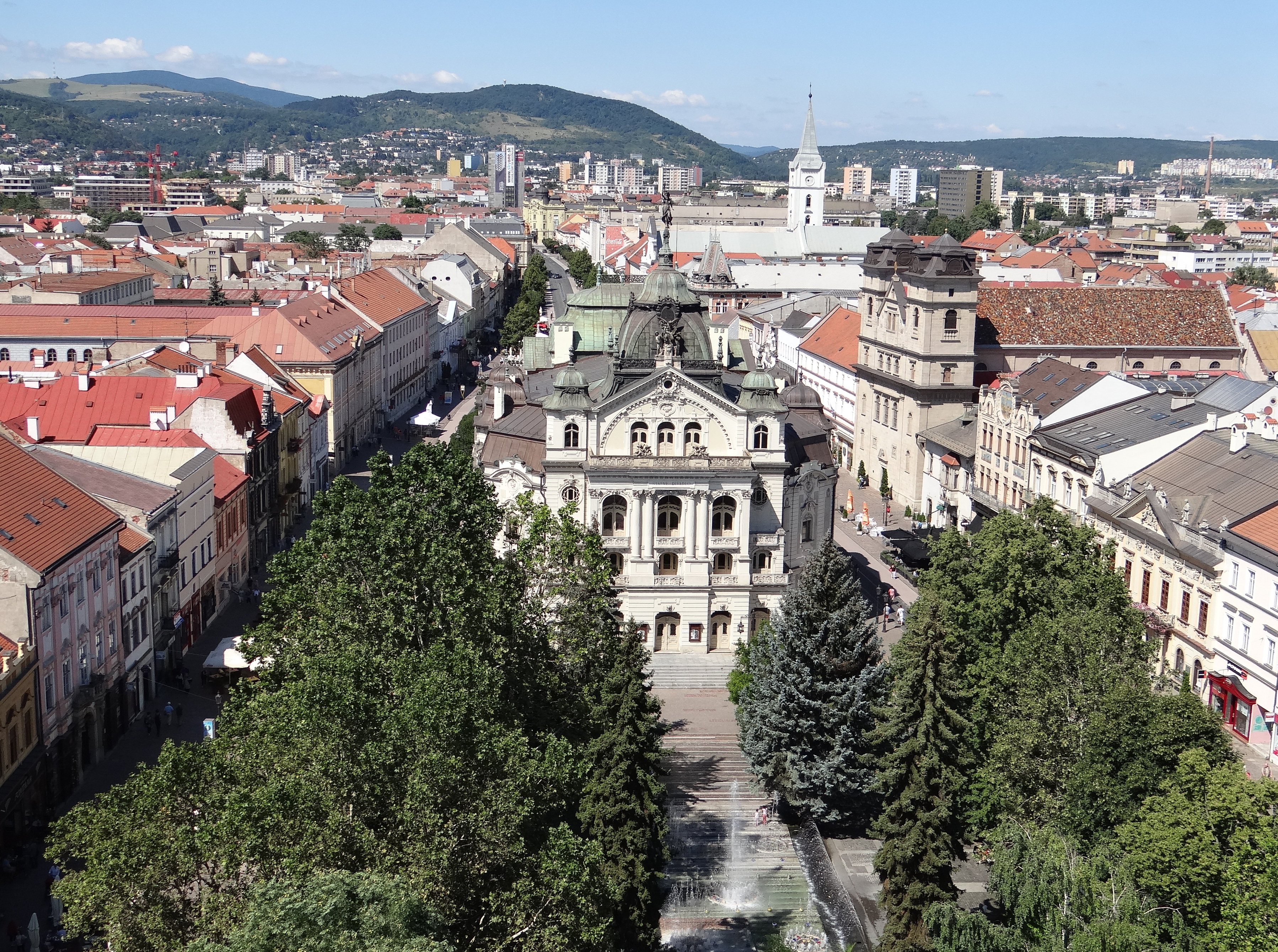 View over Old Town from St. Elisabeth Cathedral Bell Tower - Kosice - Slovakia